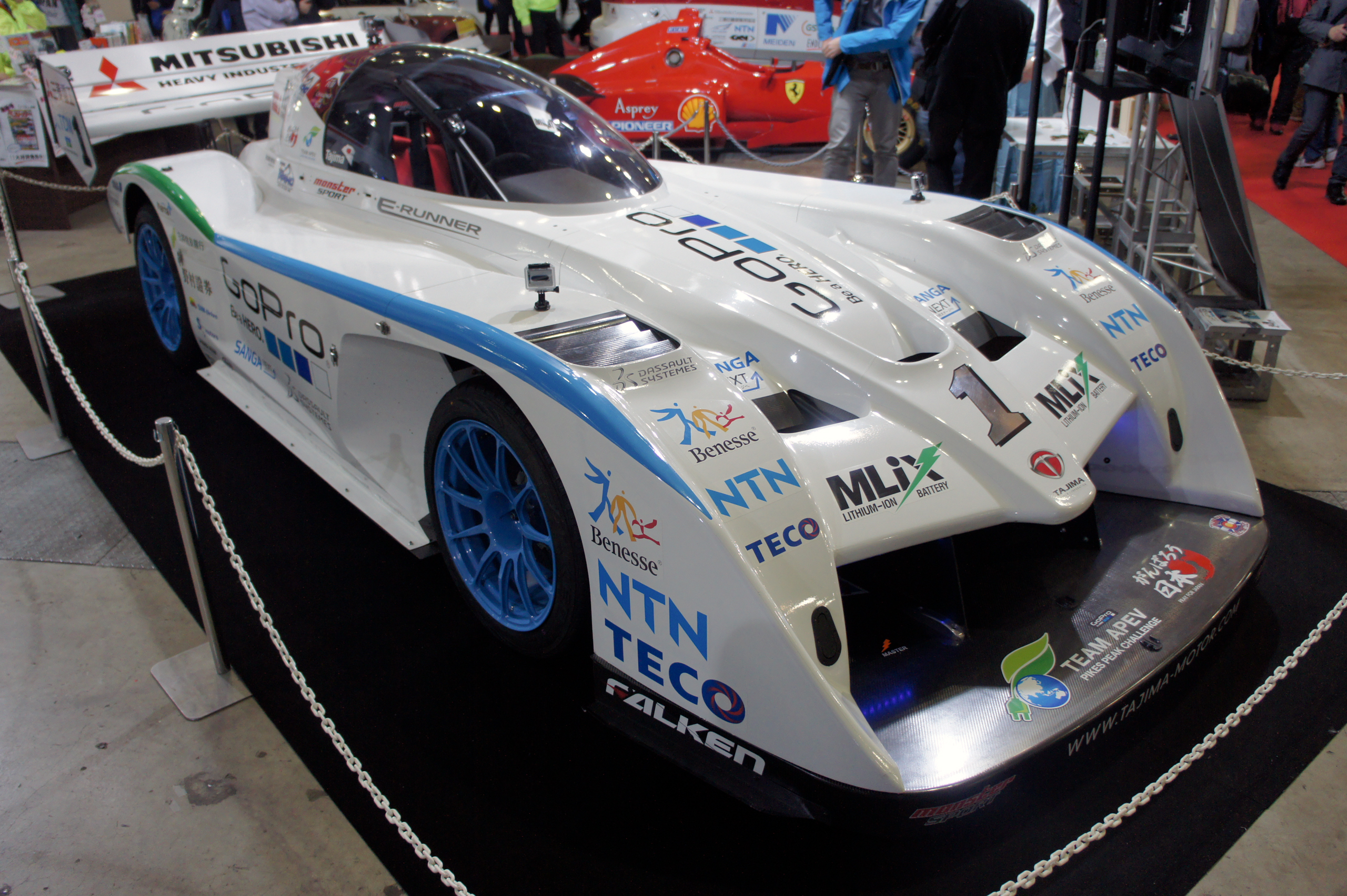 Tokyo Auto Salon 2013: 2012 Monster Sport E-Runner Pikes Peak Special